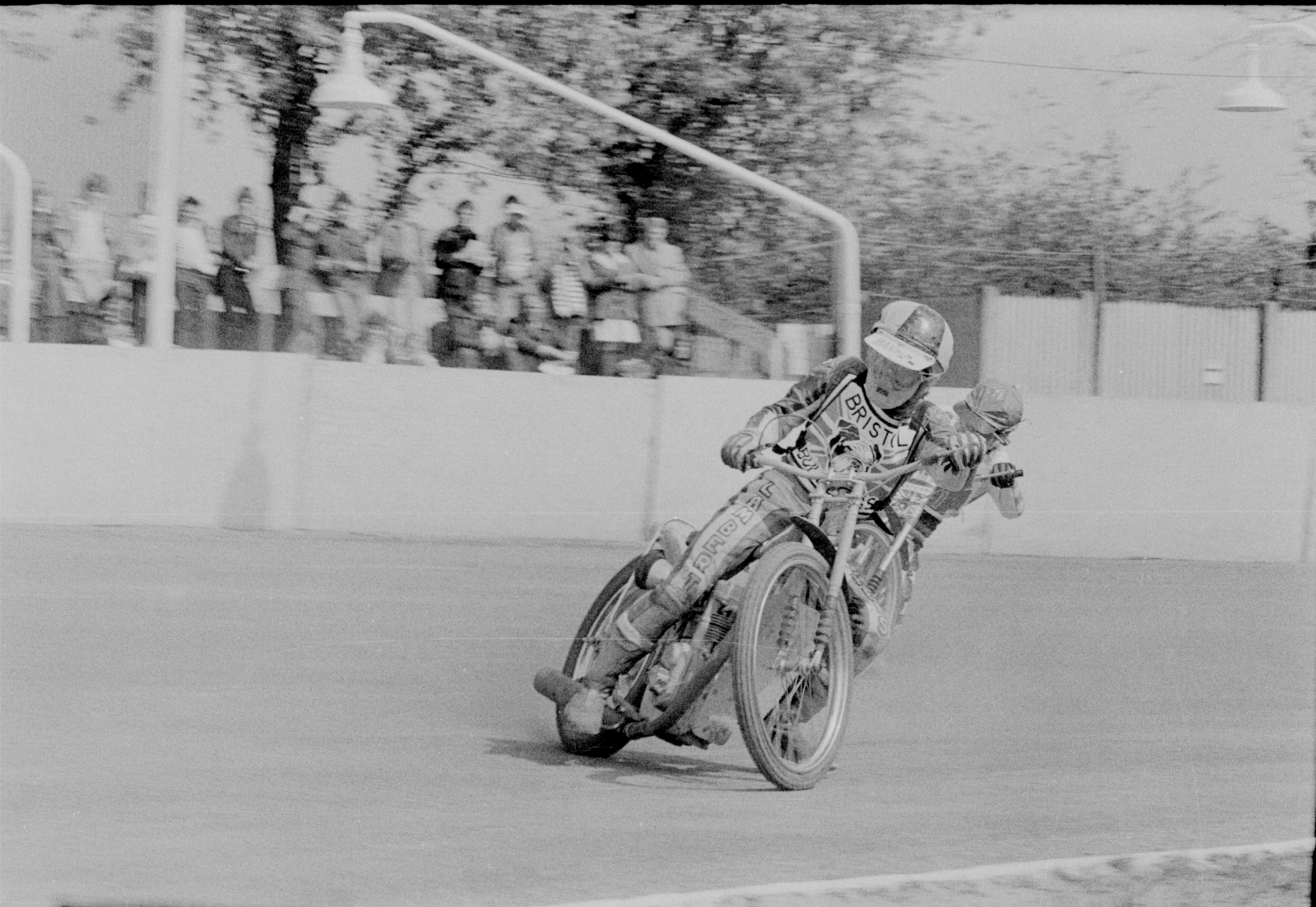 Bristol Bulldog at Cowley Stadium. Possible Phil Crump in Riders Tournament